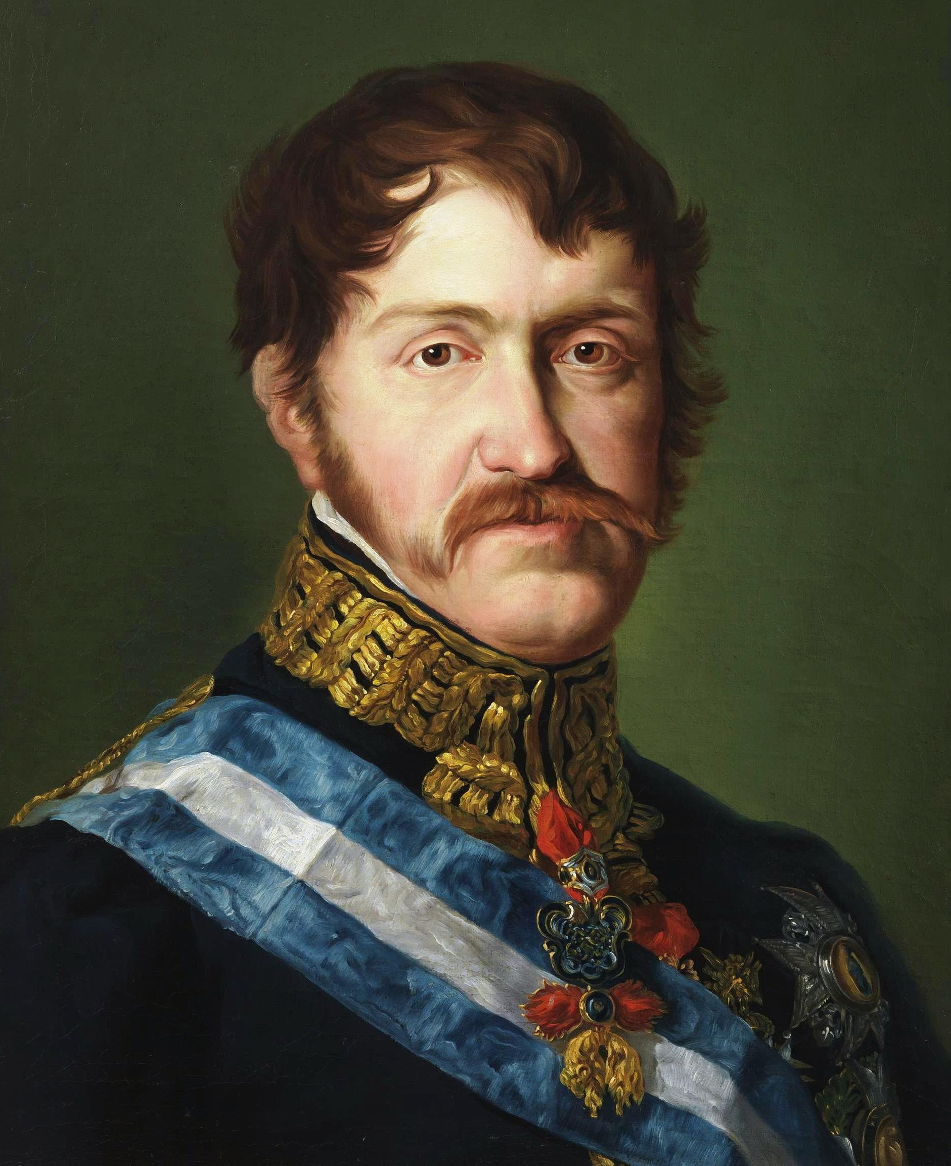 Carlos María Isidro de Borbón. Brother of Ferdinand VII and Carlist pretender to the Spanish throne.